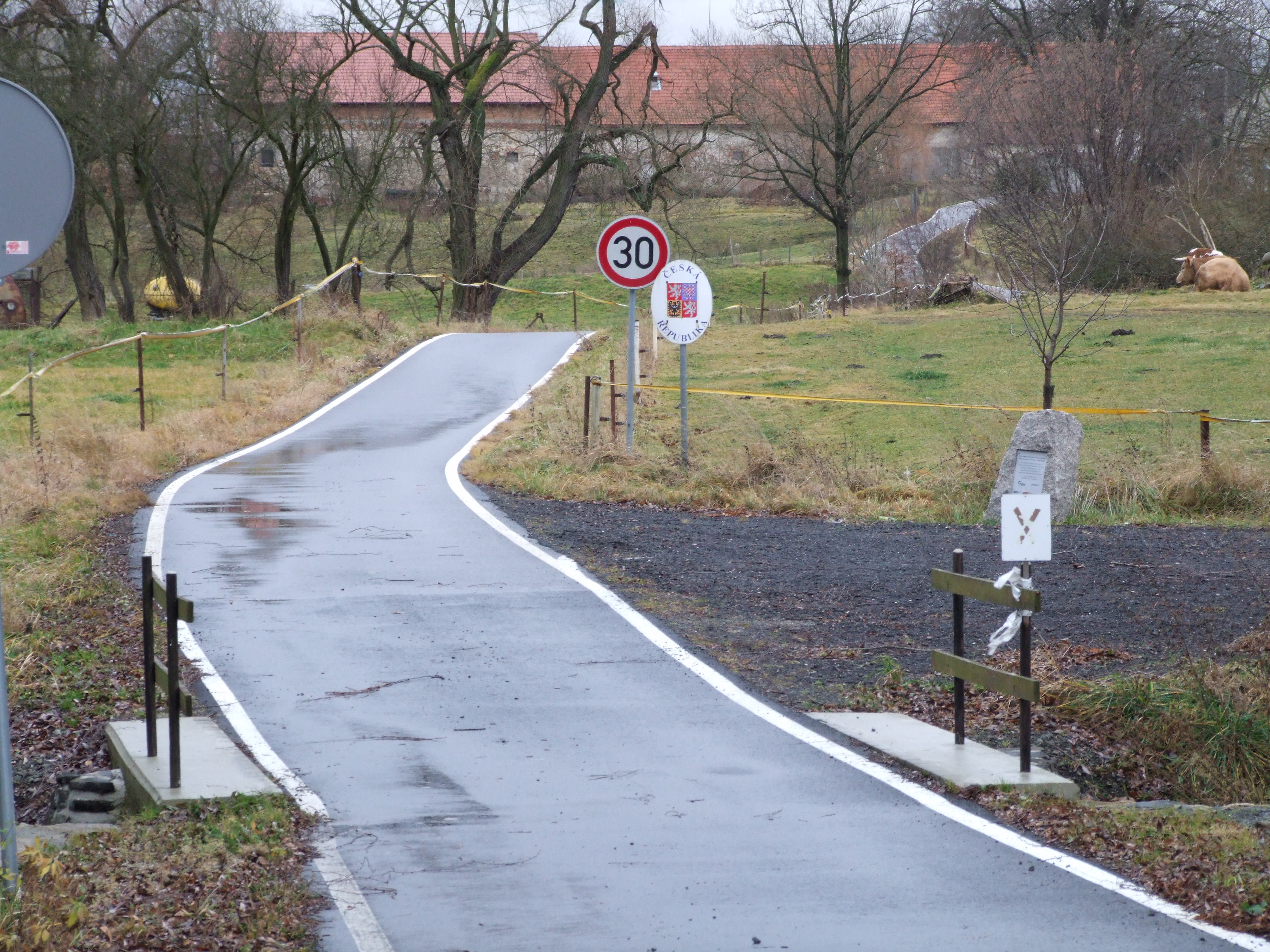 Czech–Polish order crossing Ves/Zawidów